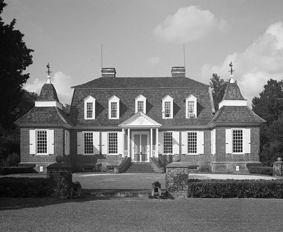 Mulberry Plantation (Berkeley County, South Carolina) {cropped}